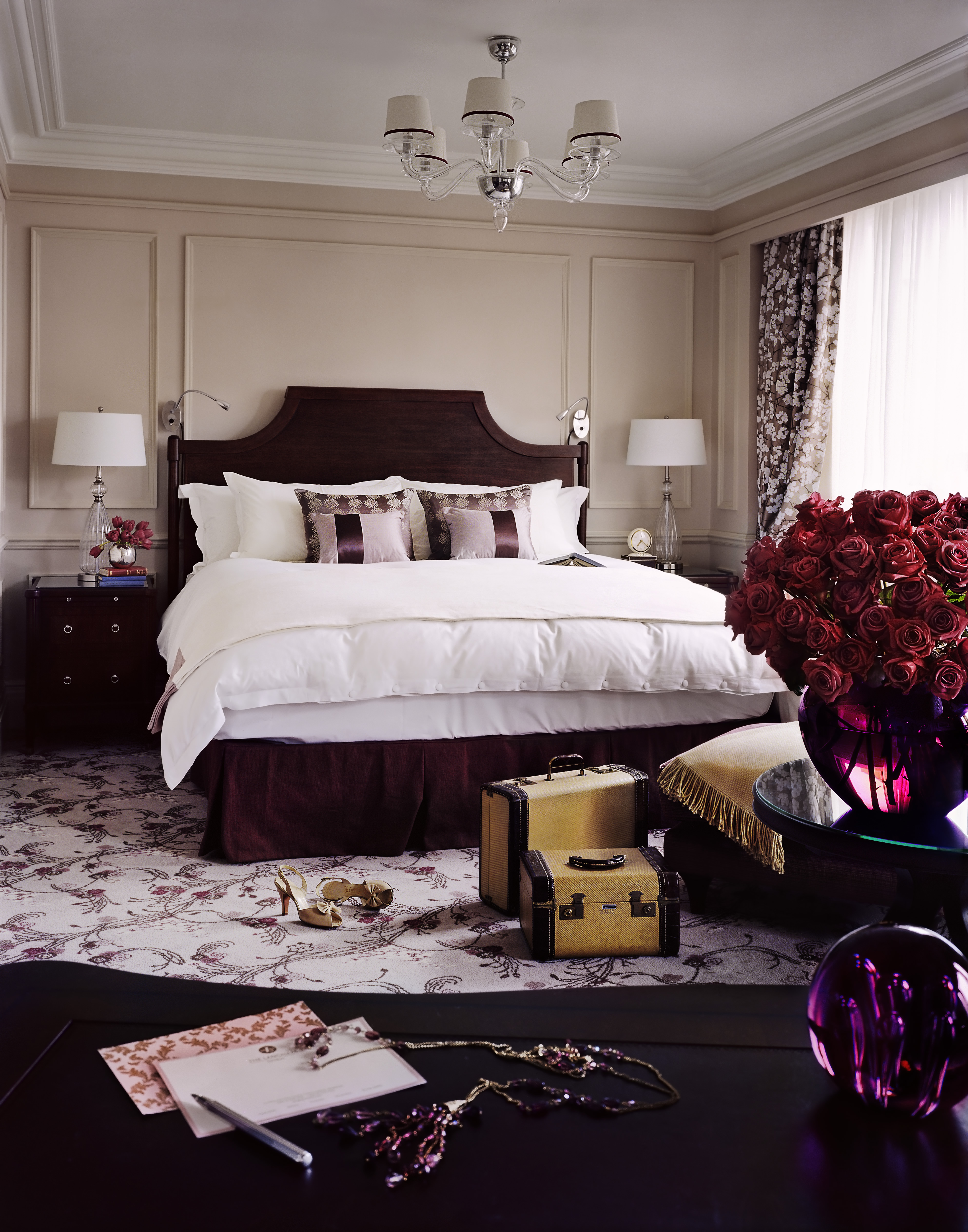 The Langham, London Grand Junior Suite